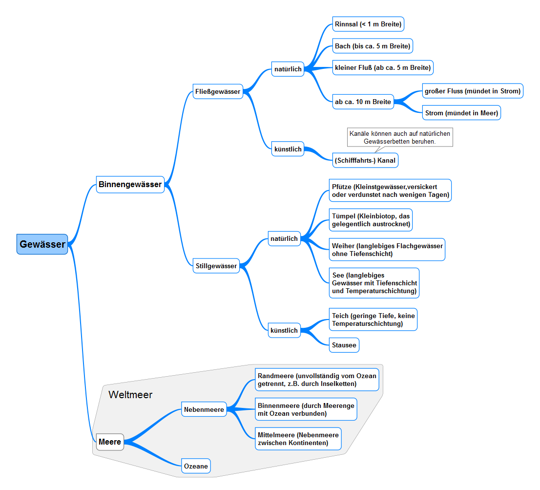 Categorization of waterbodies (in German)